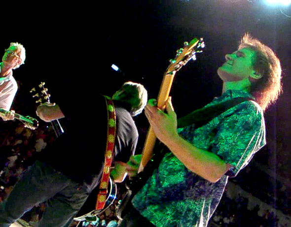 Rich Campbell - America In Concert, Manila, Philippines 2007